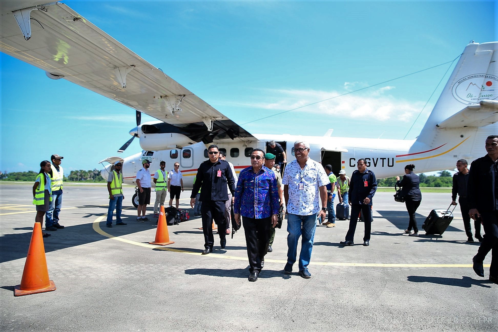 President Francisco Guterres arrives in Oecusse